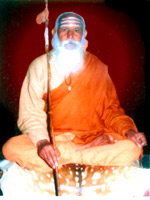 Photograph of Swami Govindanand Tirth